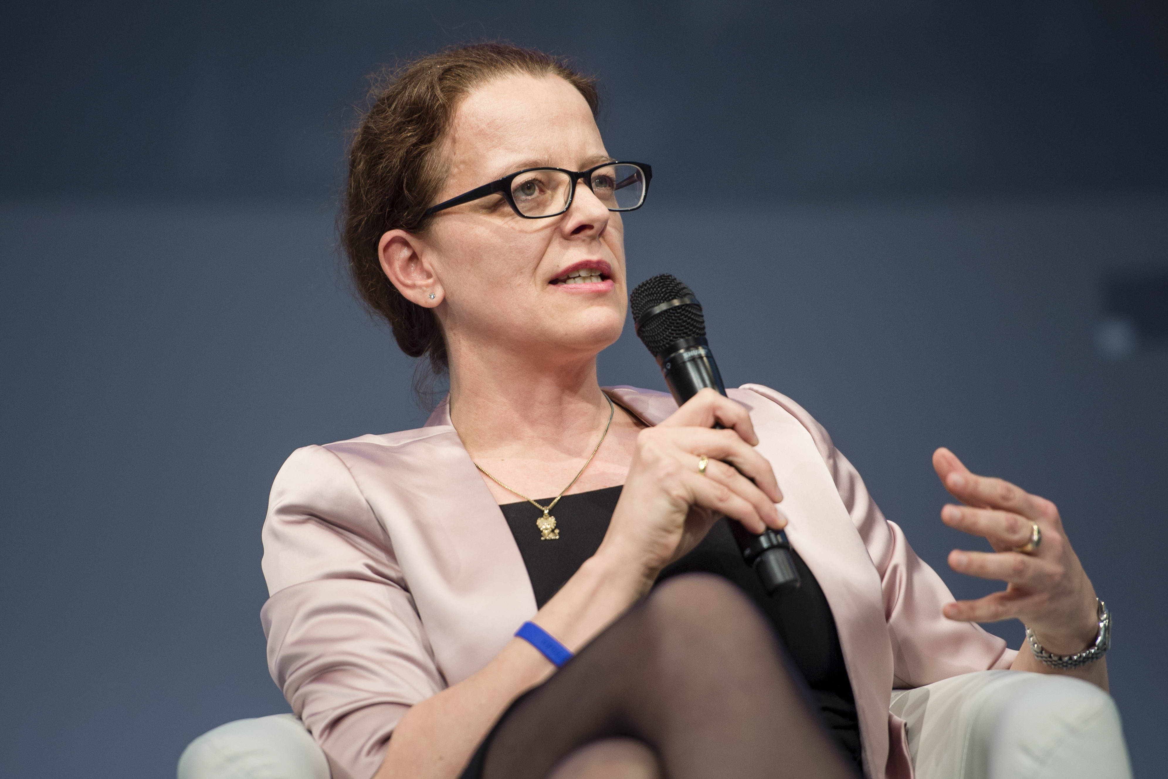 Prof. Dr. Isabel Schnabel, Professorin für Finanzmarktökonomie an der Uni Bonn und Mitglied im Sachveständigenrat